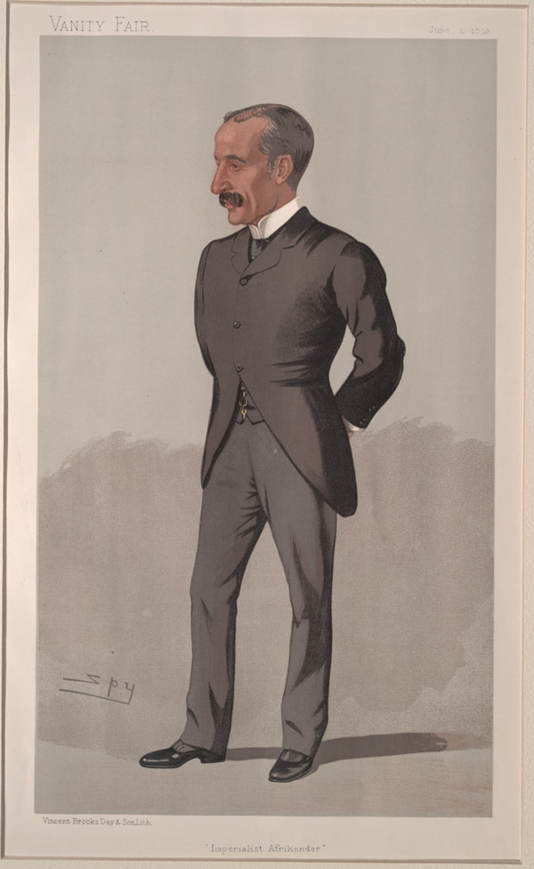 Men of the Day No.566: Caricature of Sir James Sivewright MA LLD KCMG (1848-1916). Telegraph and Railway Pioneer in South Africa, Cape Colony Politician and member of Cecil Rhodes' Cabinet.. Caption reads: "Imperialist Afrikander"